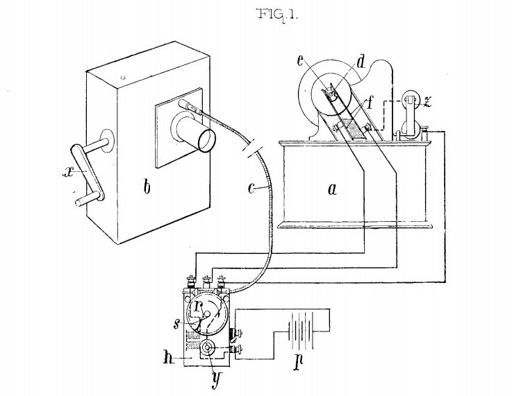 Patent drawing of 1906 Henri Joly patent number CH36824